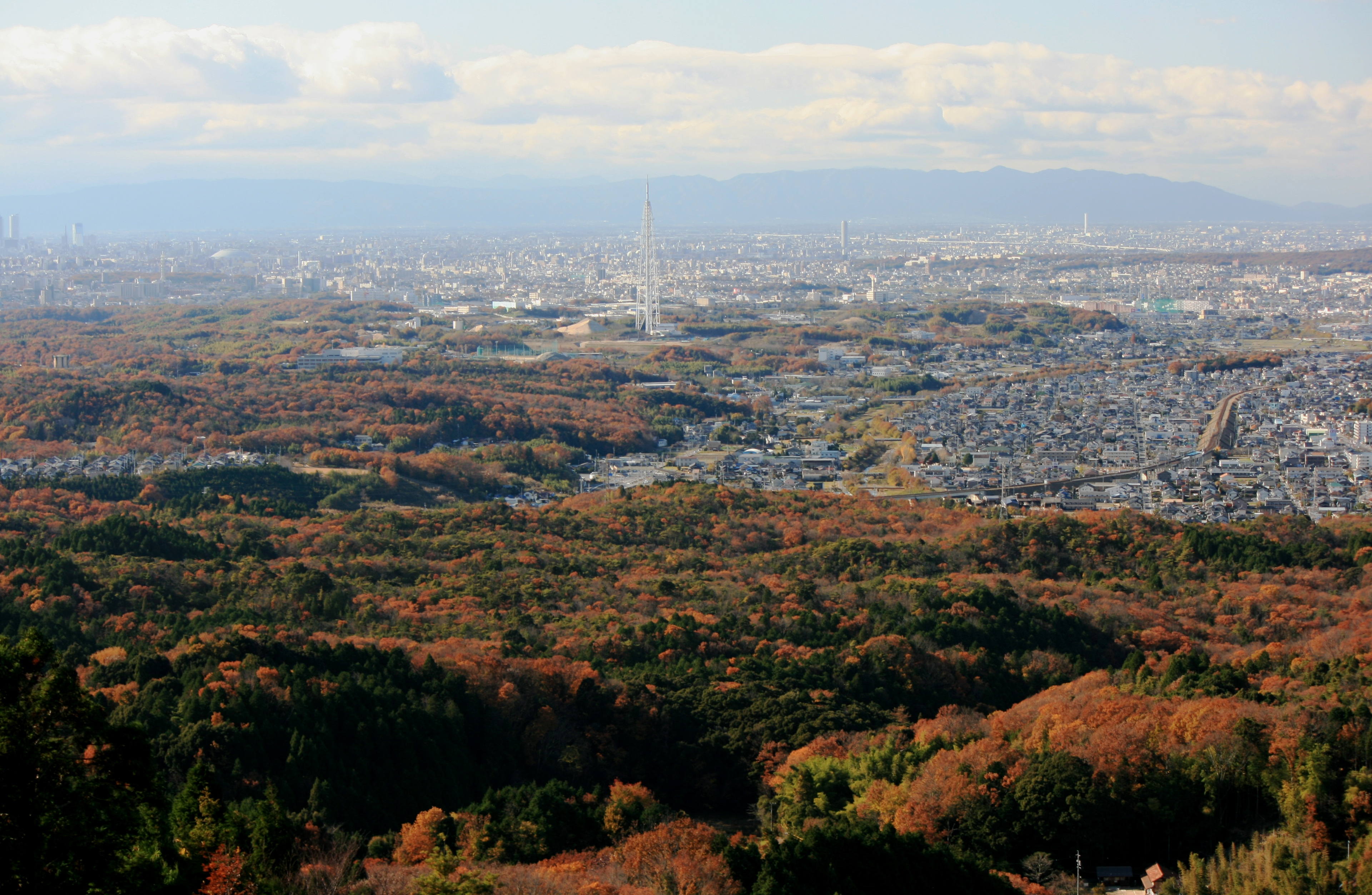 Kaisho Forest and Nagoya seen from Mount Monomi